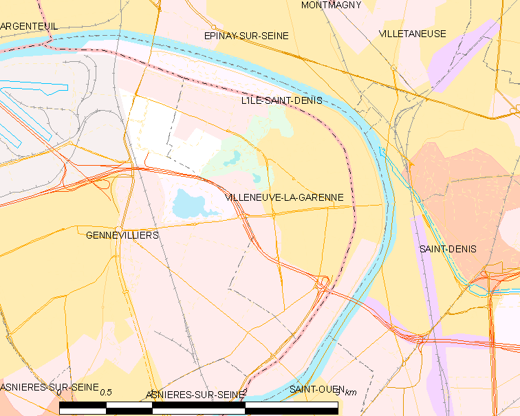 Map of French municipality Villeneuve-la-Garenne